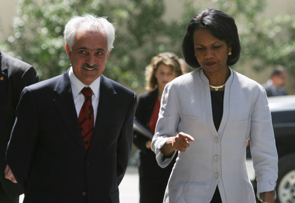 Secretary Rice meets with newly appointed Afghan Foreign Minister Dr. Rangin Dadfar Spanta. State Department photo by Hamid Hamidi